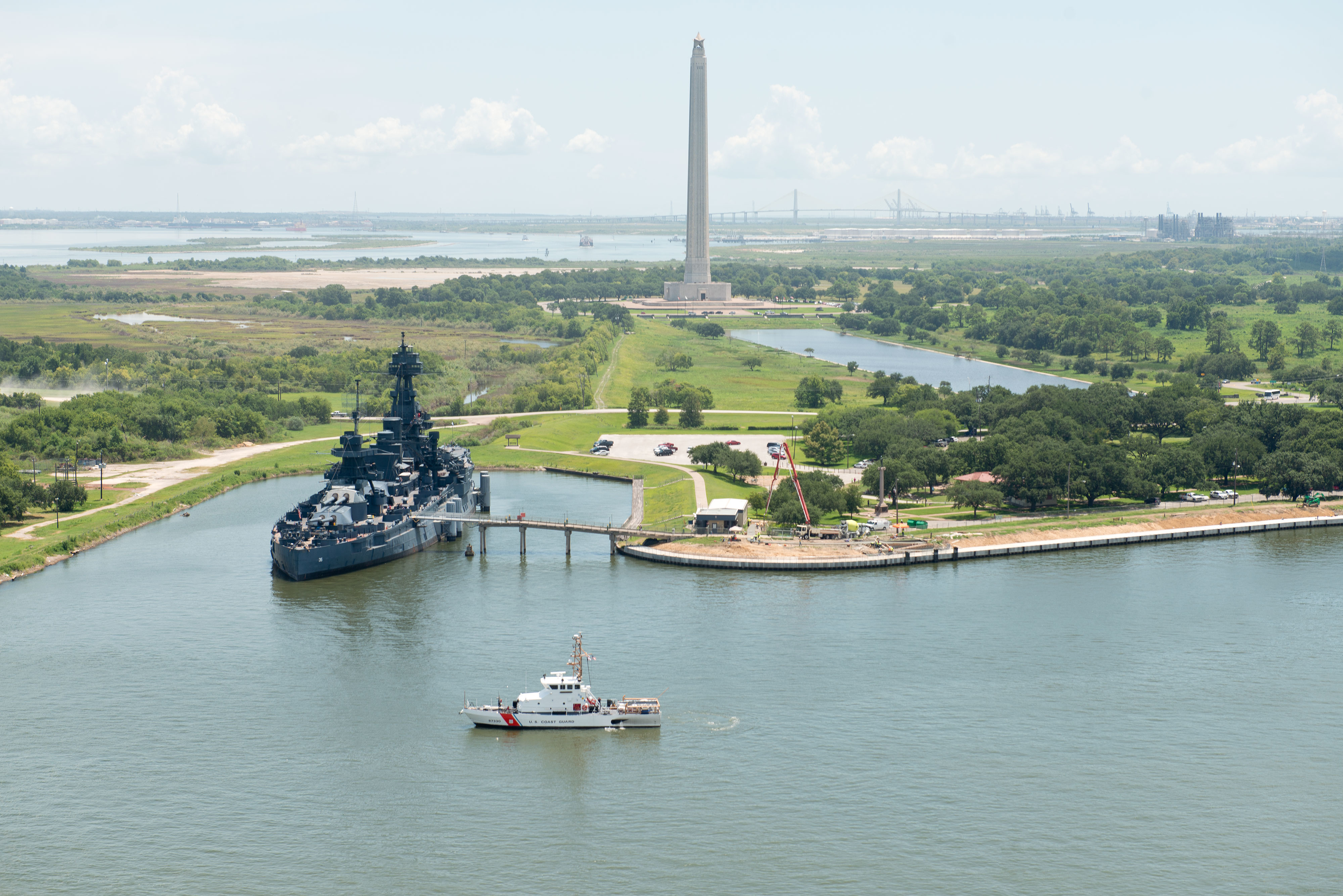 The Coast Guard Cutter Manowar passes the Battleship Texas and San Jacinto Monument as it patrols the Houston Ship Channel, August 3, 2016. The Manowar is an 87-foot patrol boat homeported in Galveston, Texas. U.S. Coast Guard photo by Petty Officer 3rd Class Dustin R. Williams VIRIN = 160803-G-CZ043-121